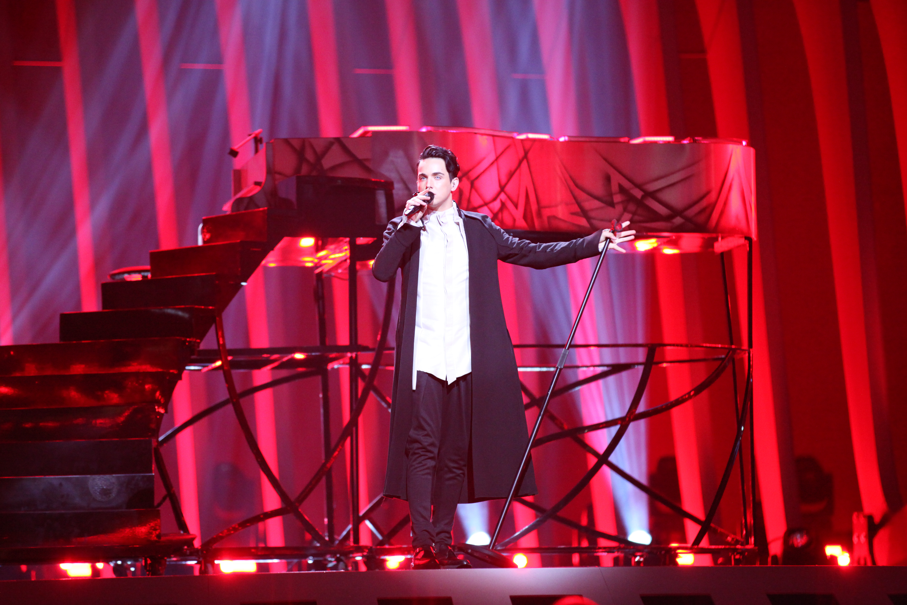 MELOVIN representing Ukraine with the song "Under the Ladder" during a rehearsal before the second semi final of the Eurovision Song Contest 2018 in Lisbon.